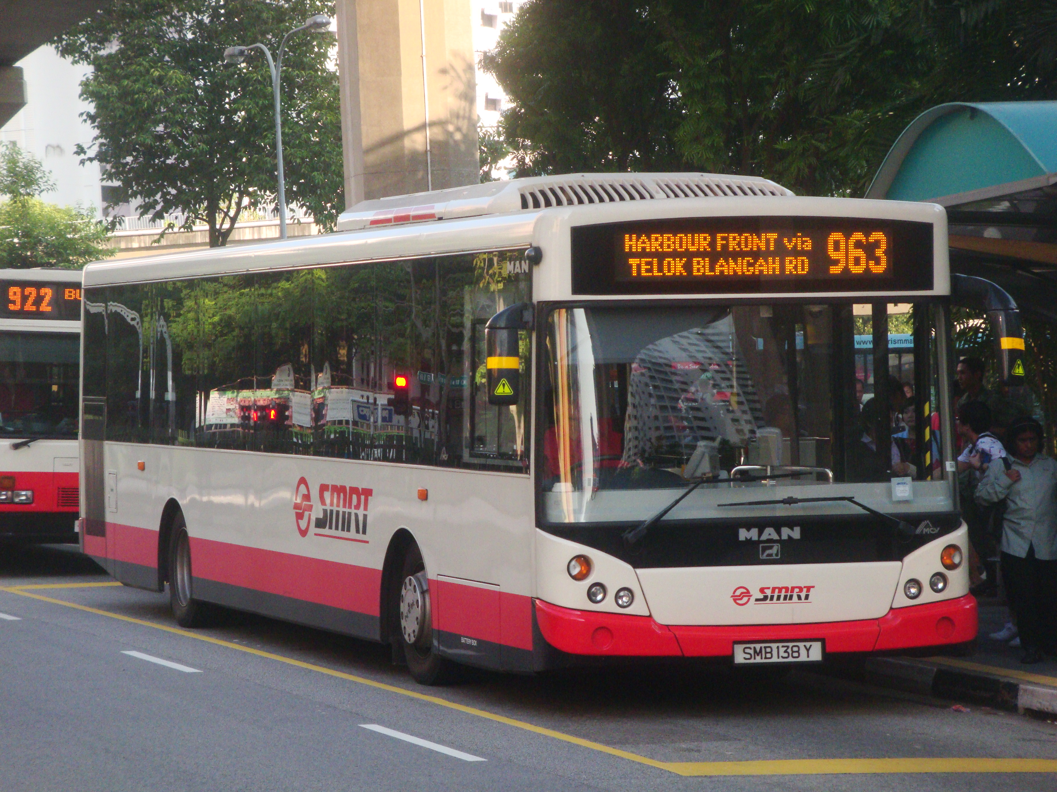 SMRT Buses MAN A22 demostrator (reg. SMB138Y, built 2010), bodied by MCV eVolution.